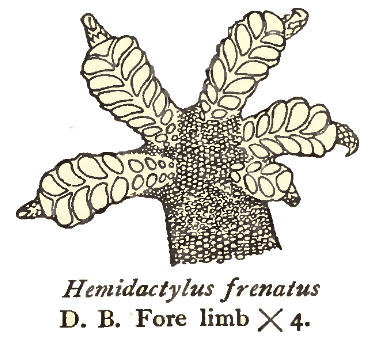 Hemidactylus frenatus claw